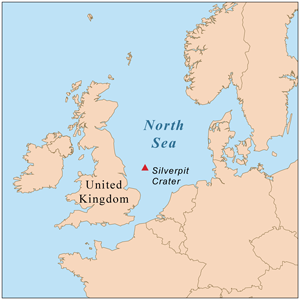 Locator map for Silverpit crater. Boundary data is from the Digital Chart of the World.